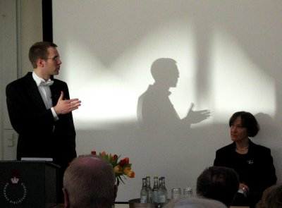 The first PhD at the Royal School of Library and Information Science, Denmark, - Birger Larsen - defending his thesis February 20., 2004